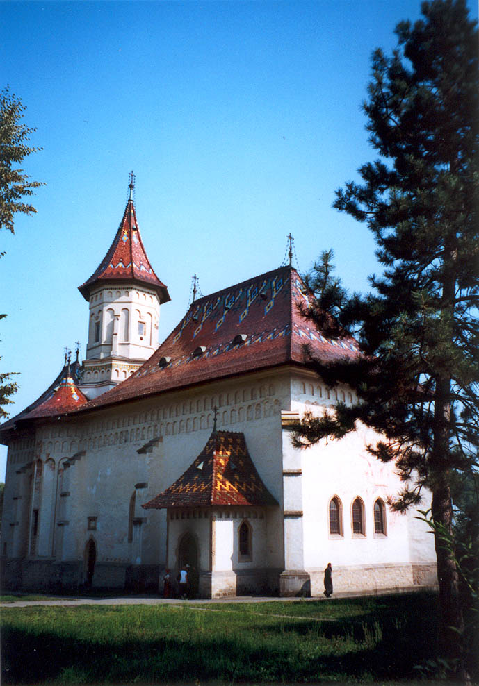 St. John the New Monastery in Suceava - St. George Church.